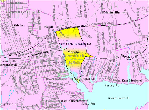 U.S. Census 2000 reference map for Moriches